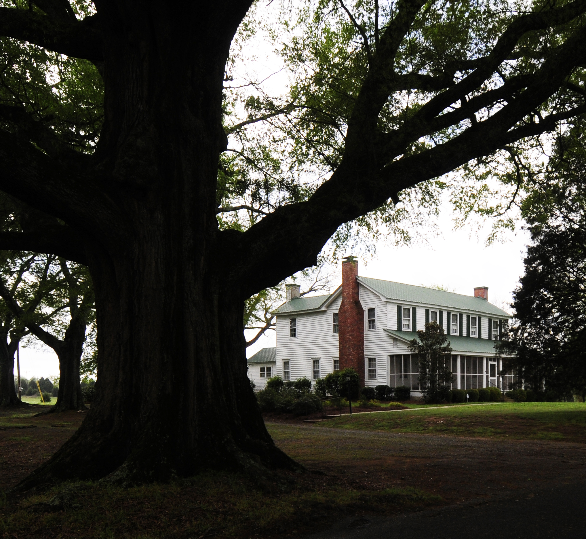 The Oaks